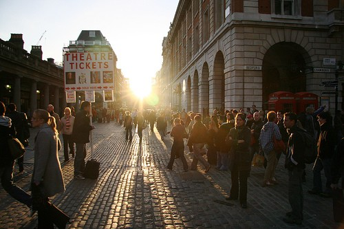 Covent Garden, London, April 2005. Taken by Nick Fraser.